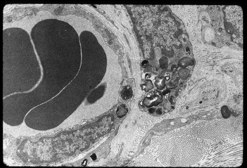 Electron microscopy showed laminated bodies in pericytes about a capillary. The patient was a 15-year-old male with Fabry disease. A biopsy was taken of the conjunctiva.